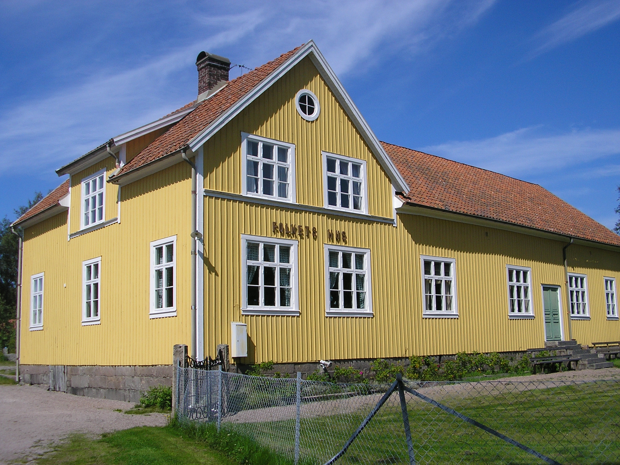 Härnäset Folkets hus (People's house), Fågelviken.